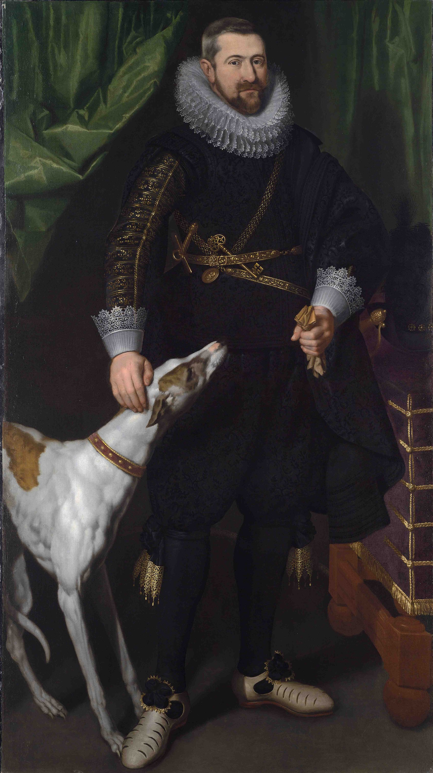 Portrait of Charles-Alexandre de Croÿ, Marquis d'Havré and Duc de Croÿ (1581 - 1624).